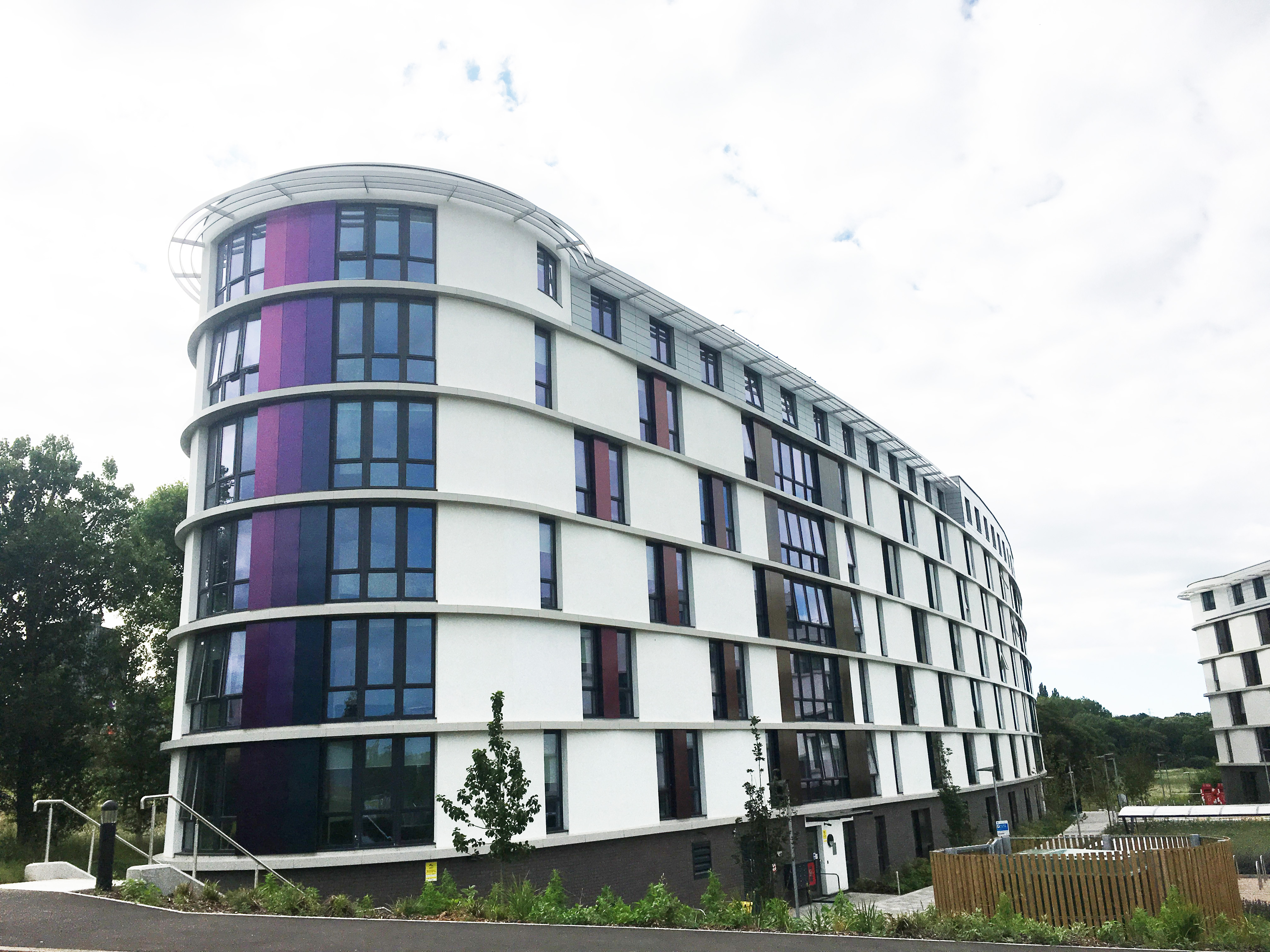 The Copse student accommodation, Colchester Campus, University of Essex